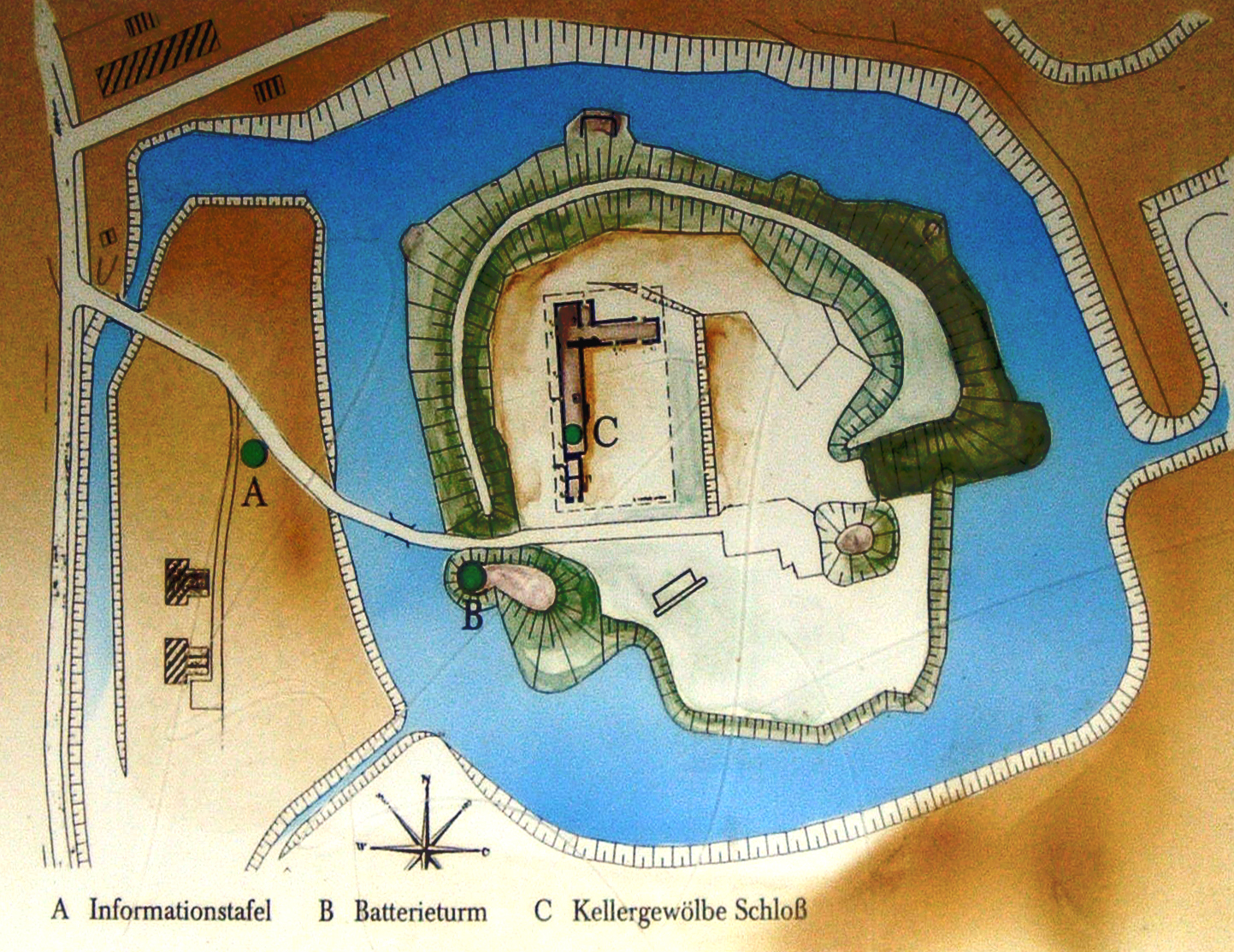 Sign at the Castle Calenberg near Hildesheim, Germany